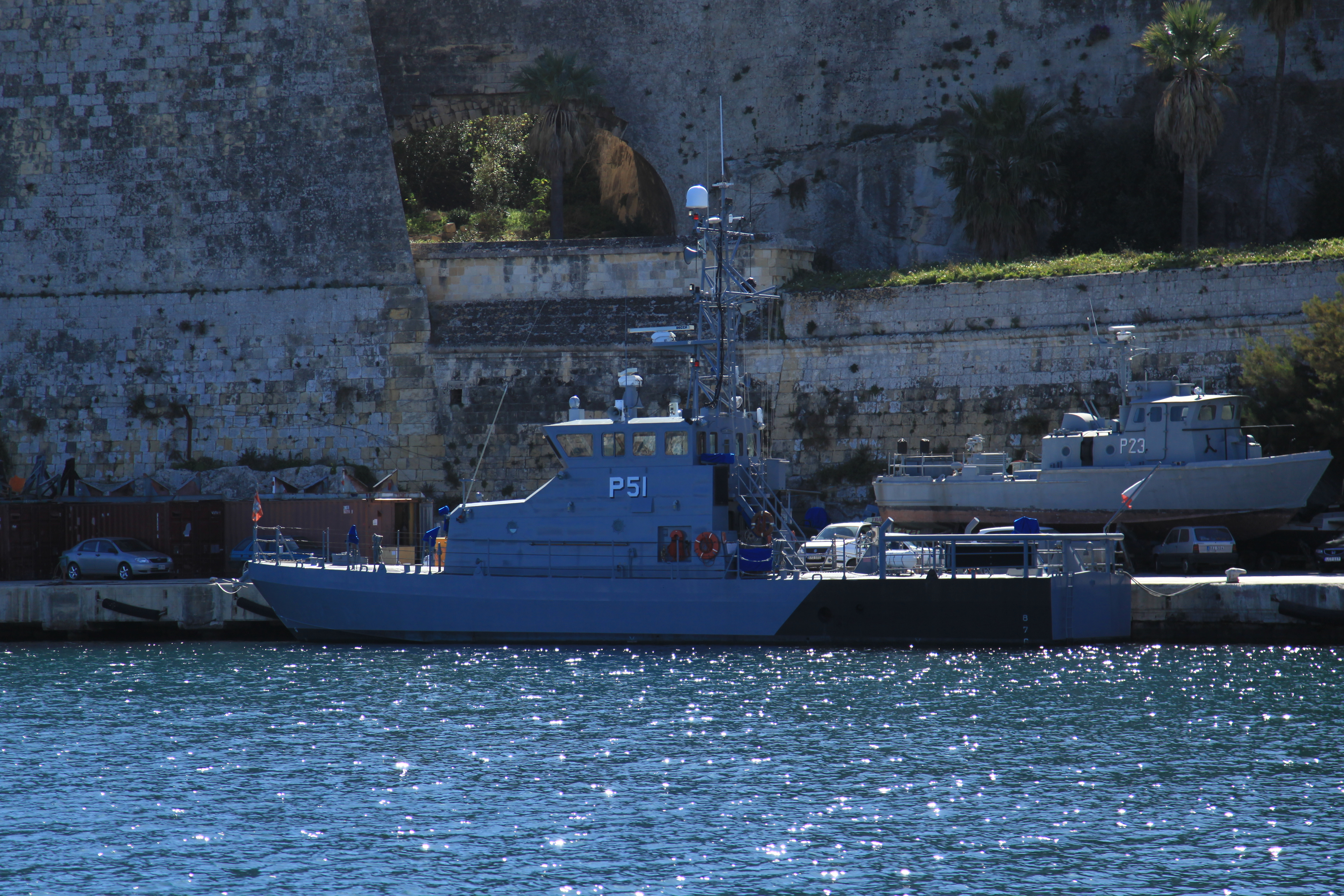 View from a Malta sightseeing two harbours cruise boat to Xatt it-Tiben in Floriana, Malta